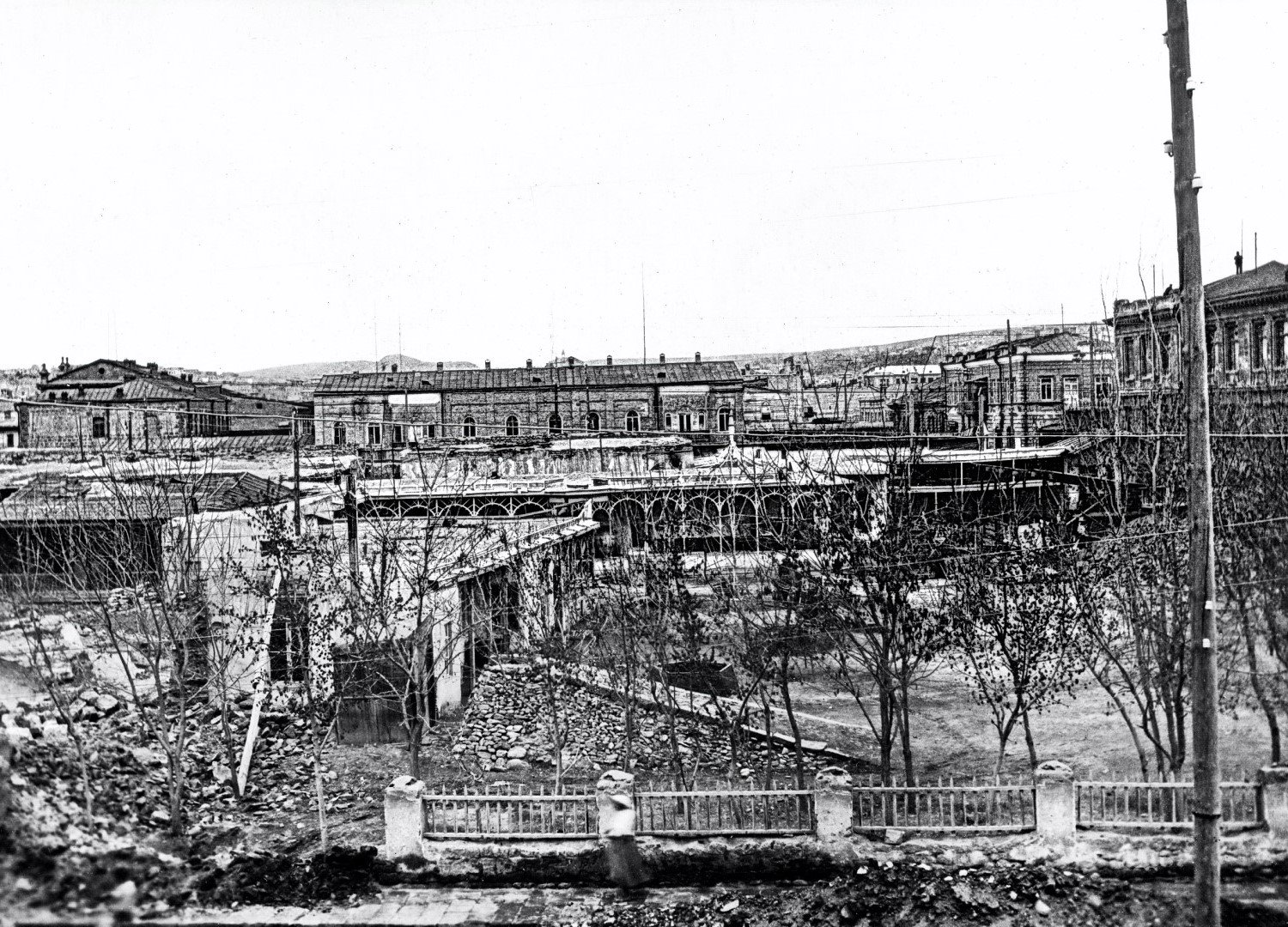 Republic square in Yerevan in early 1920s